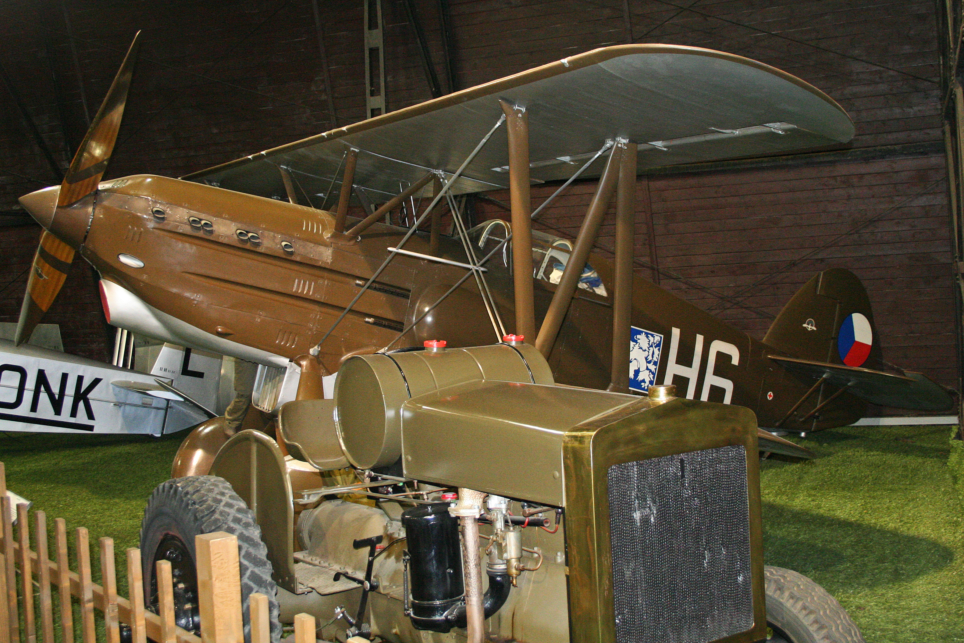 So, we have the sole remaining example of what was the pinacle of biplane fighter design. It's been beautifully restored to exacting standards, and is on display with a huge tractor right in front of it. Ridiculous! I'm told, by someone in the know, that it is a very nice tractor. I remain unimpressed. The aeroplane, however, is fantastic. c/n B534.226. On display in the 1925-1938 hangar. Kbely Museum, Czech Republic. 07-10-2012